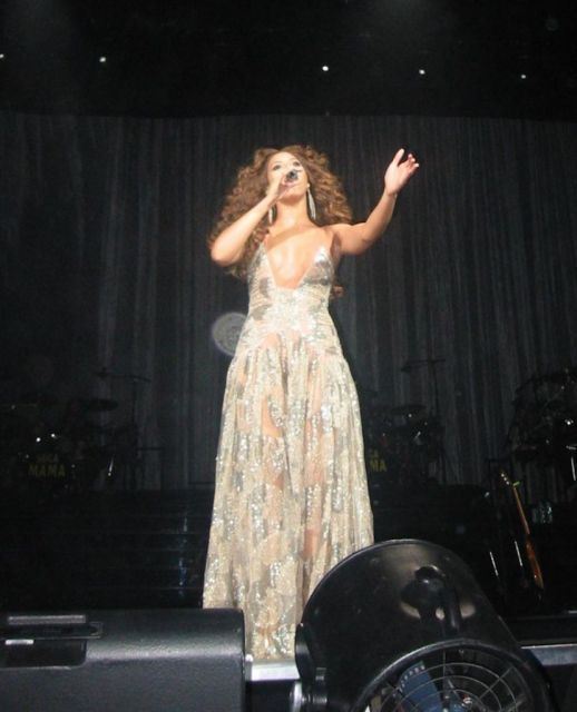 Beyoncé Knowles singing "Dangerously in Love 2"